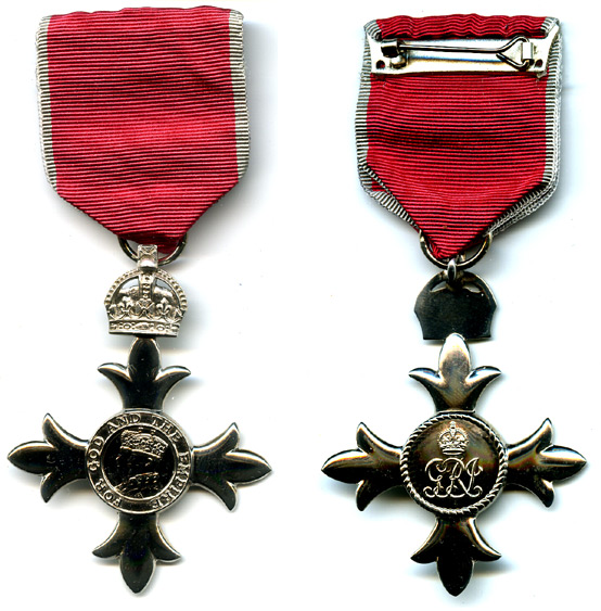 Member of the Order of the British Empire (MBE) medal, front and obverse